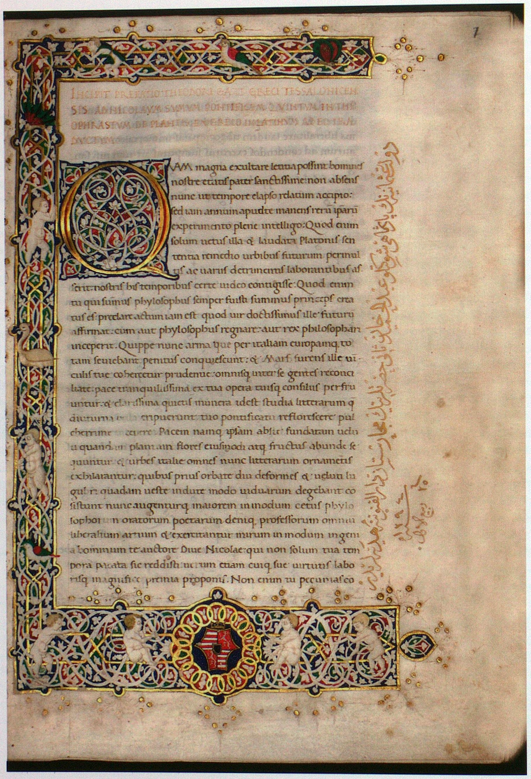 The beginning of Theodorus Gaza’s preface to his Latin translation of Theophrastus’ „Historia plantarum“ in the manuscript Budapest, Egyetemi Könyvtár, Cod. Lat. 1, fol. 1r.